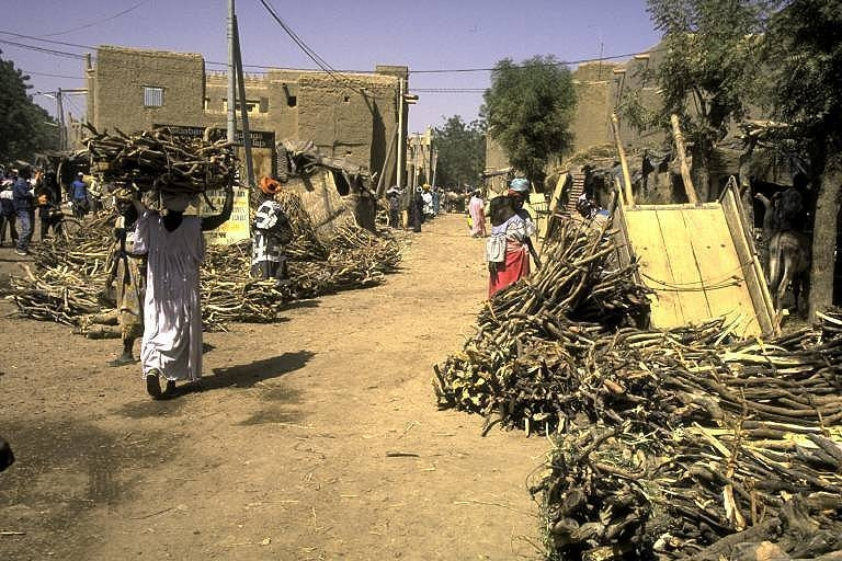 Fuelwood market in the centre of Malian town of Djenné. Wood is a common fuel in many developing countries. Often people must travel long distances to collect shrinking supplies.